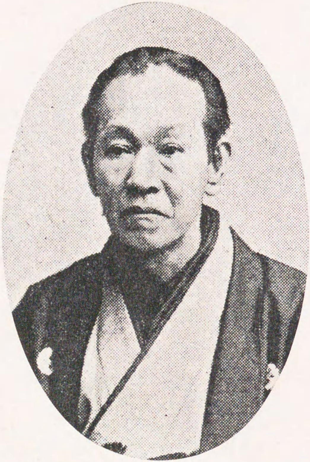 San'yūtei Enchō (1839 - 1900), a Rakugo performer of Meiji era.